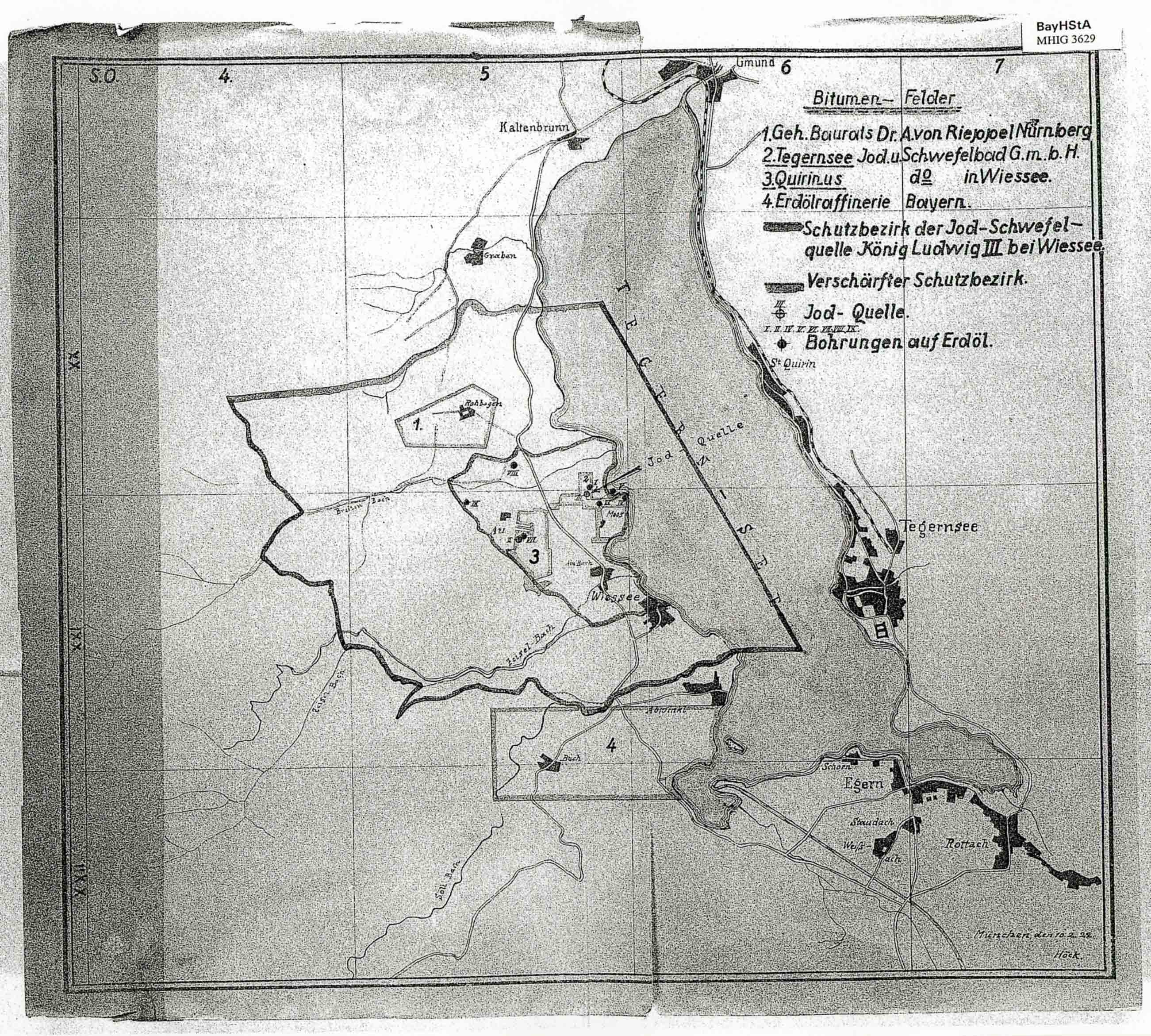 Oilfield and derricks in Bad Wiessee, 10. February 1922